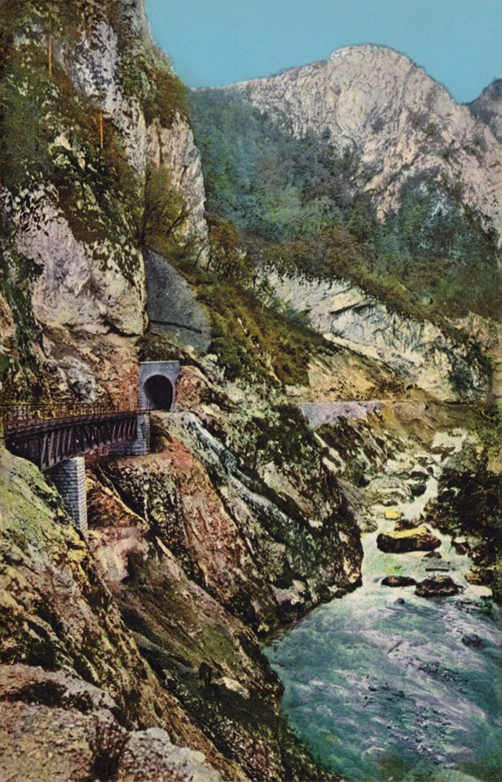 The eastern portals of the tunnels No. 47 and 46 located in the gorge of the Prača River as seen in this upstream view towards Sudići